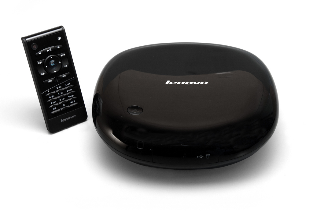 The Lenovo A30 which has been jointly launched by Lenovo and BesTV New Media is powered by the VIA Nano platform. Seen here from the front with remote.